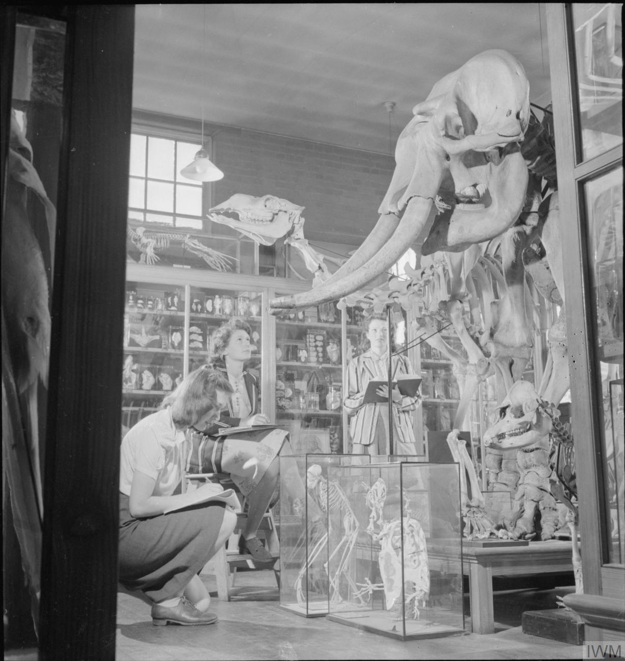 A Picture of a Southern Town- Life in Wartime Reading, Berkshire, England, UK, 1945 Female students make notes and sketches in the museum in the Faculty of Science at Reading University. They are looking at animal skeletons: clearly visible are an elephant, and a small primate can be seen in one of several glass display cases.